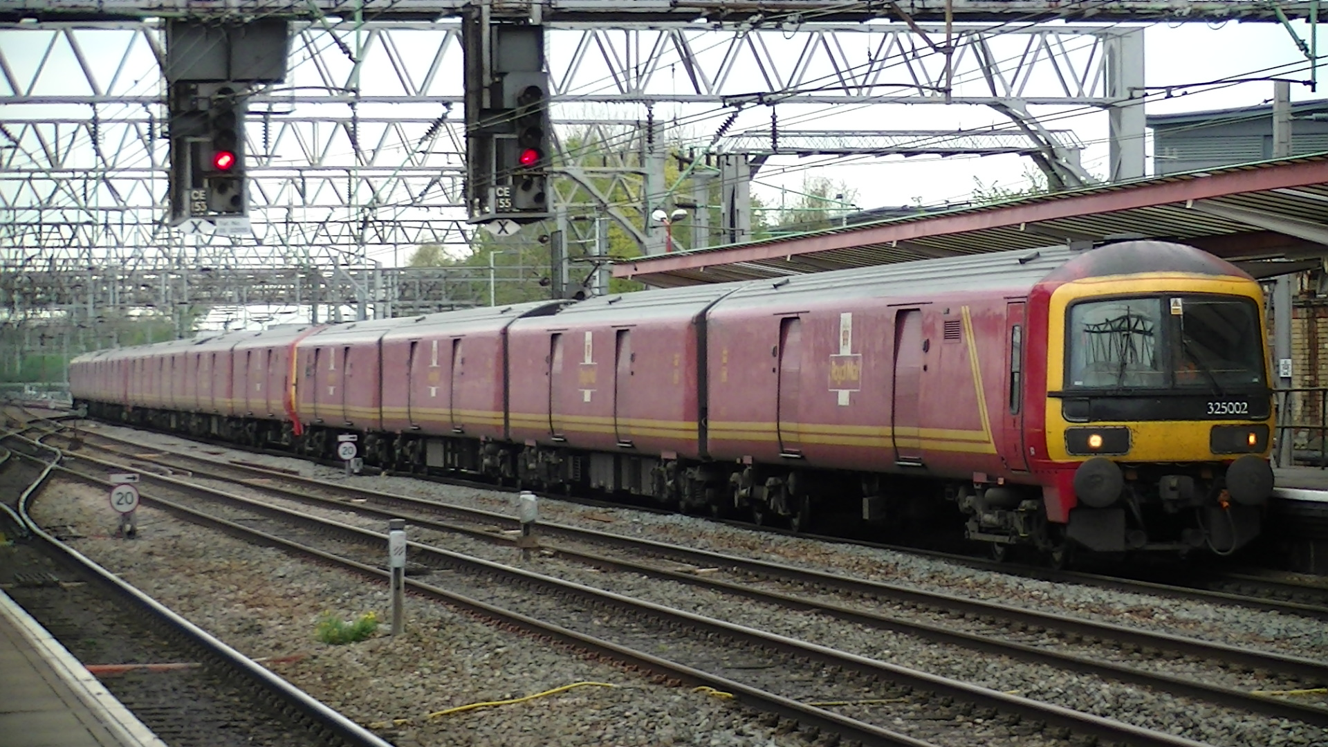 Class 325's approach Crewe Platform 5 working the Shieldmuir - Willesden Week-day Mail Run.